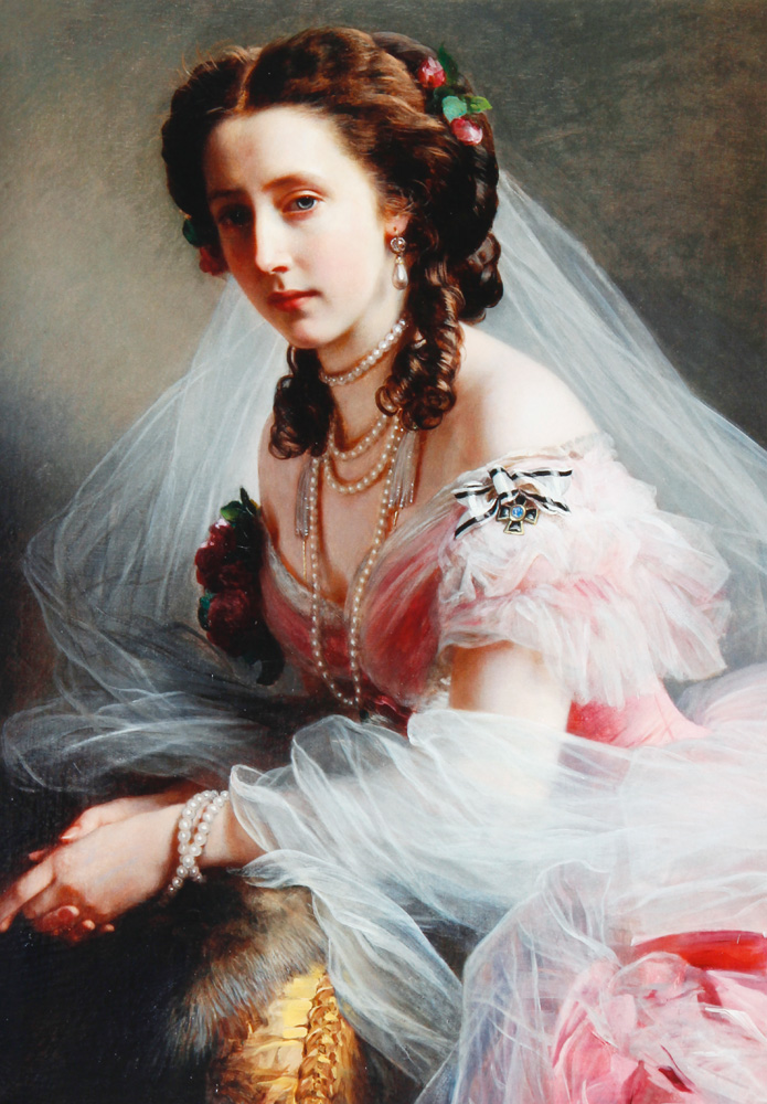 Anna of Prussia, 1858